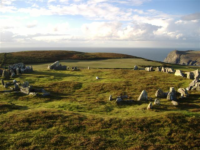 The Meayll circle / Mull Hill. A uniquely designed Megalithic tomb, with 6 pairs of burial chambers in a circle, a passage connected to the junction of each pair. All of the roofing has long since gone. In the distance is Bradda Head, above Port Erin.